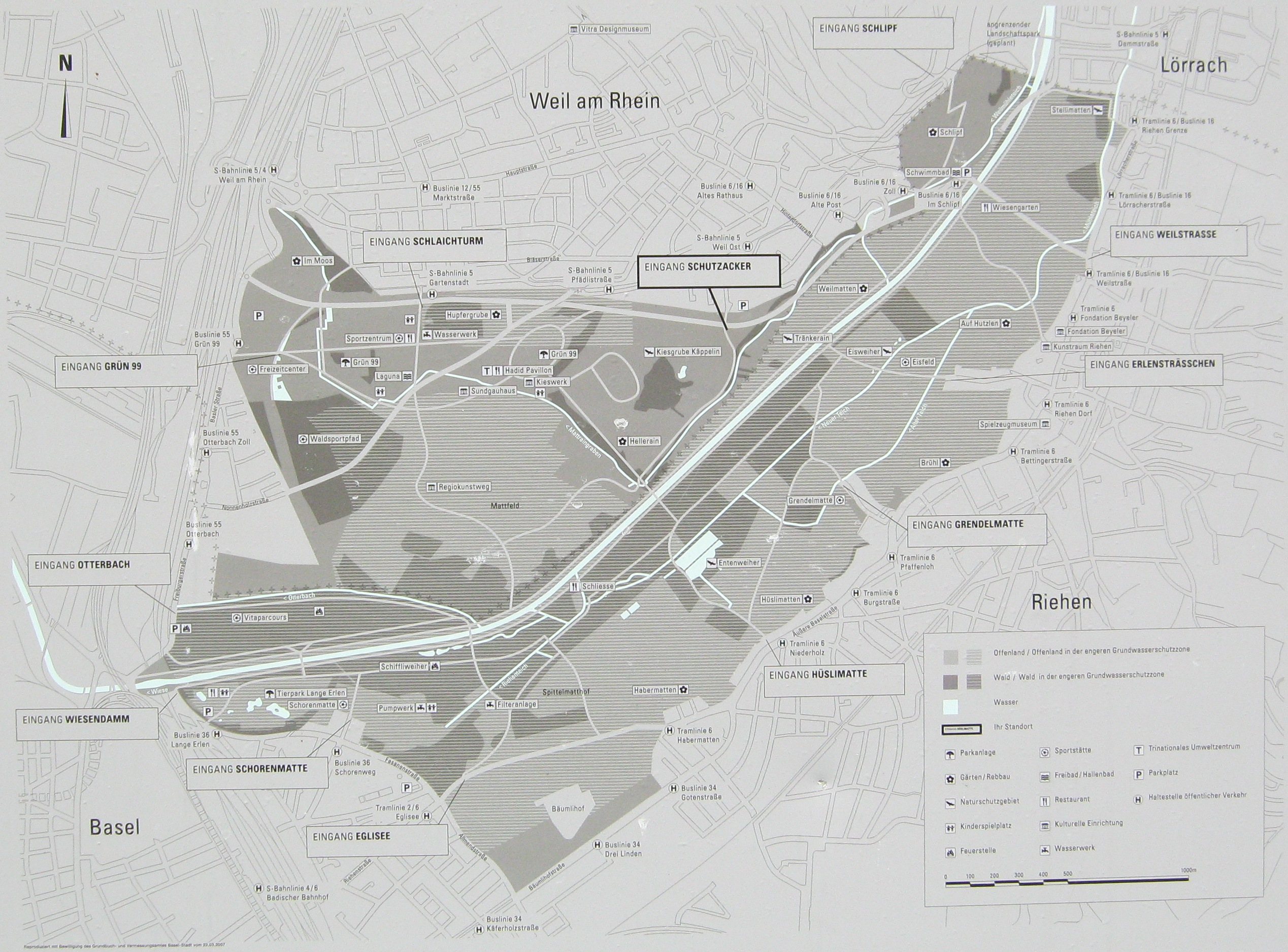 The country park "Lange Erlen" is a area of nature along the little river "Wiese". It is on the boarder between Switzerland, Kanton Basel Stadt, and the German City Weil am Rhein. The map shows the exact position of the country park. The picture is a part of an information point, which is standing on the entry "Schutzacker". The information point could be visited for free and everybody could take a look without a special permission or something.